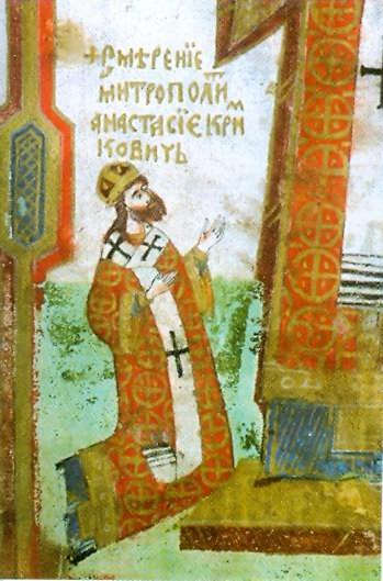 Self Portrait of Anastasie Crimca on a gospel book (Liturghirer) from 1610